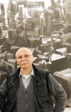 Photo of Gia Bugadze in front of his work "The books city". The exhibition took place at Tbilisi The State Museum of Fine Arts of Georgia.